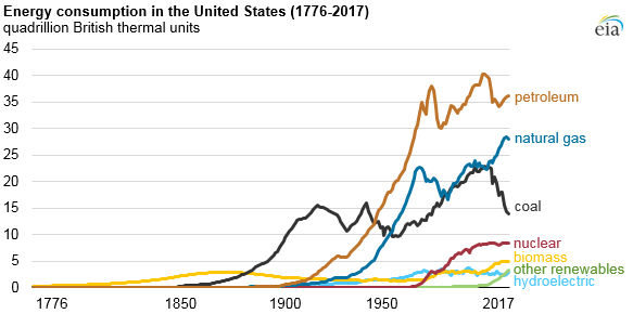 US historical energy consumption 1776-2017. This file may be updated as new data becomes available.